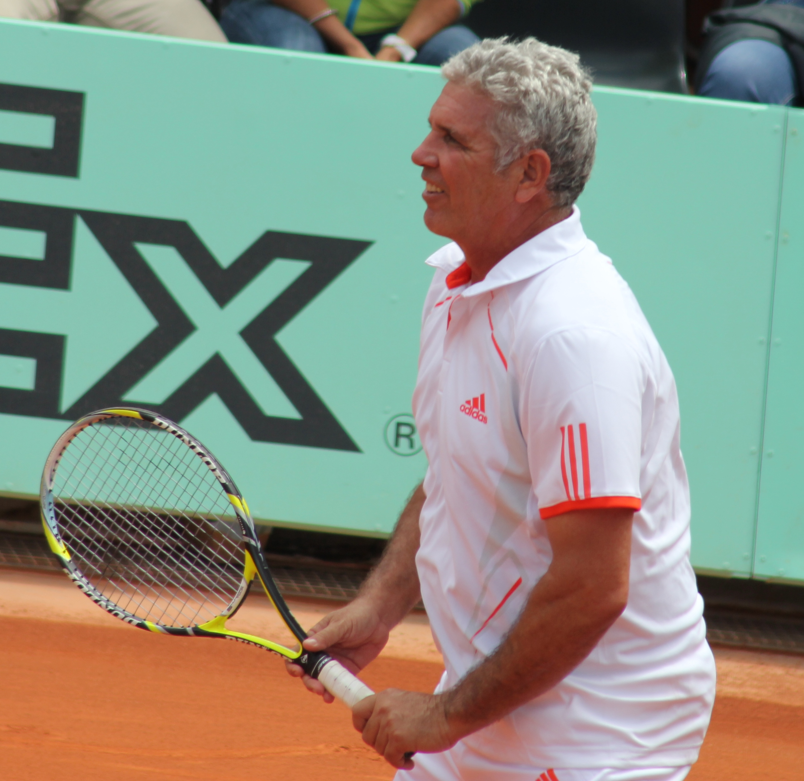 Andrés Gómez at 2012 French Open – Legends Over 45 Doubles